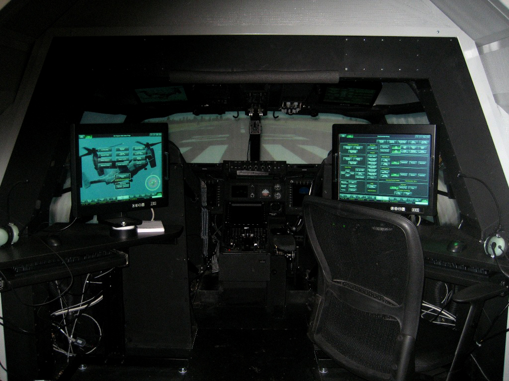 MIRAMAR, Calif. (Dec. 8, 2009) The newest MV-22 Osprey containerized flight training device is complete and operational at Marine Corps Air Station Miramar. (U.S. Marine Corps photo/Released)